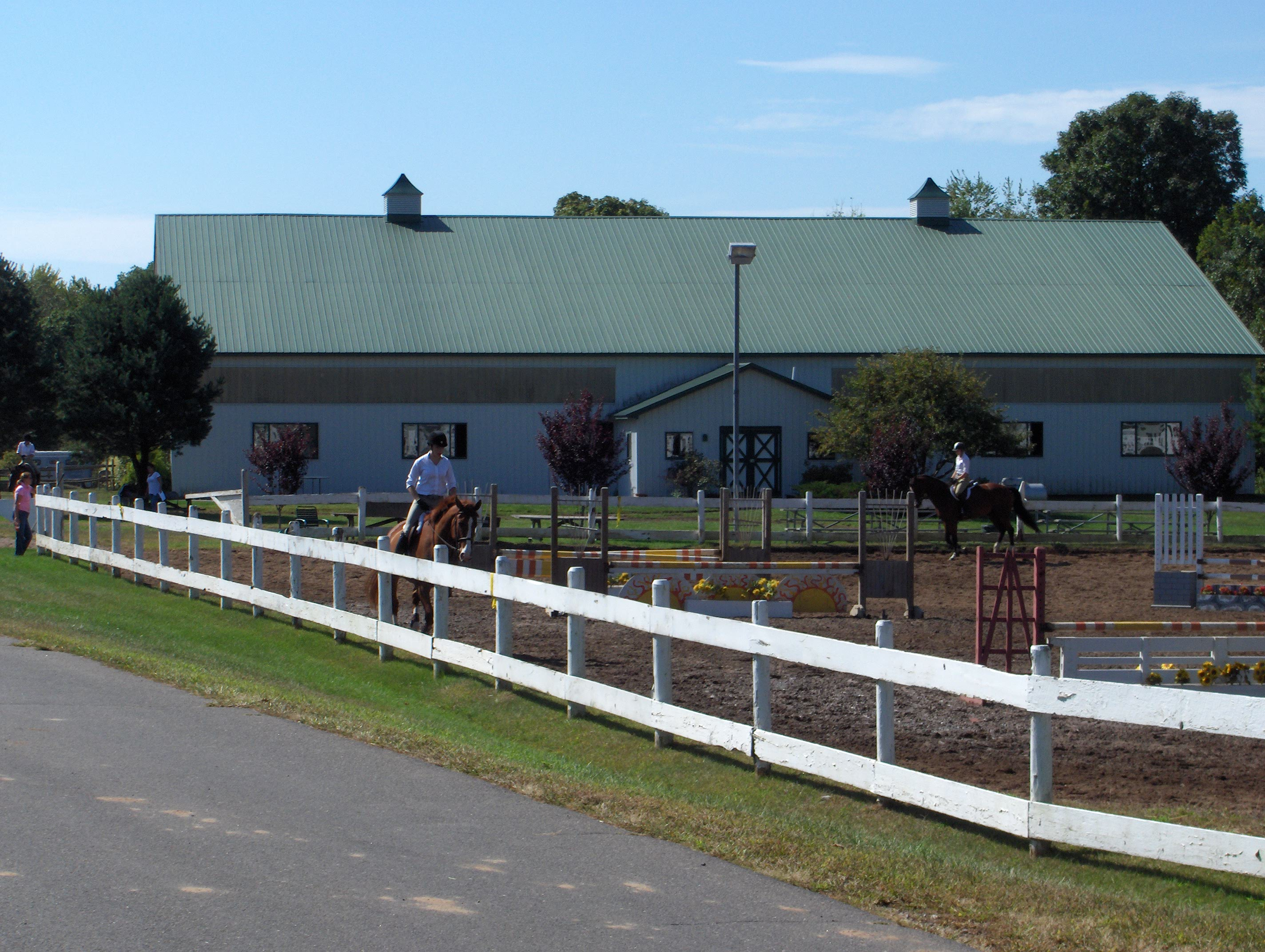 Barn and horse riders at Folly Farm on Route 185 in Simsbury. Part of the East Weatogue Historic District listed in the National Register of Historic Places